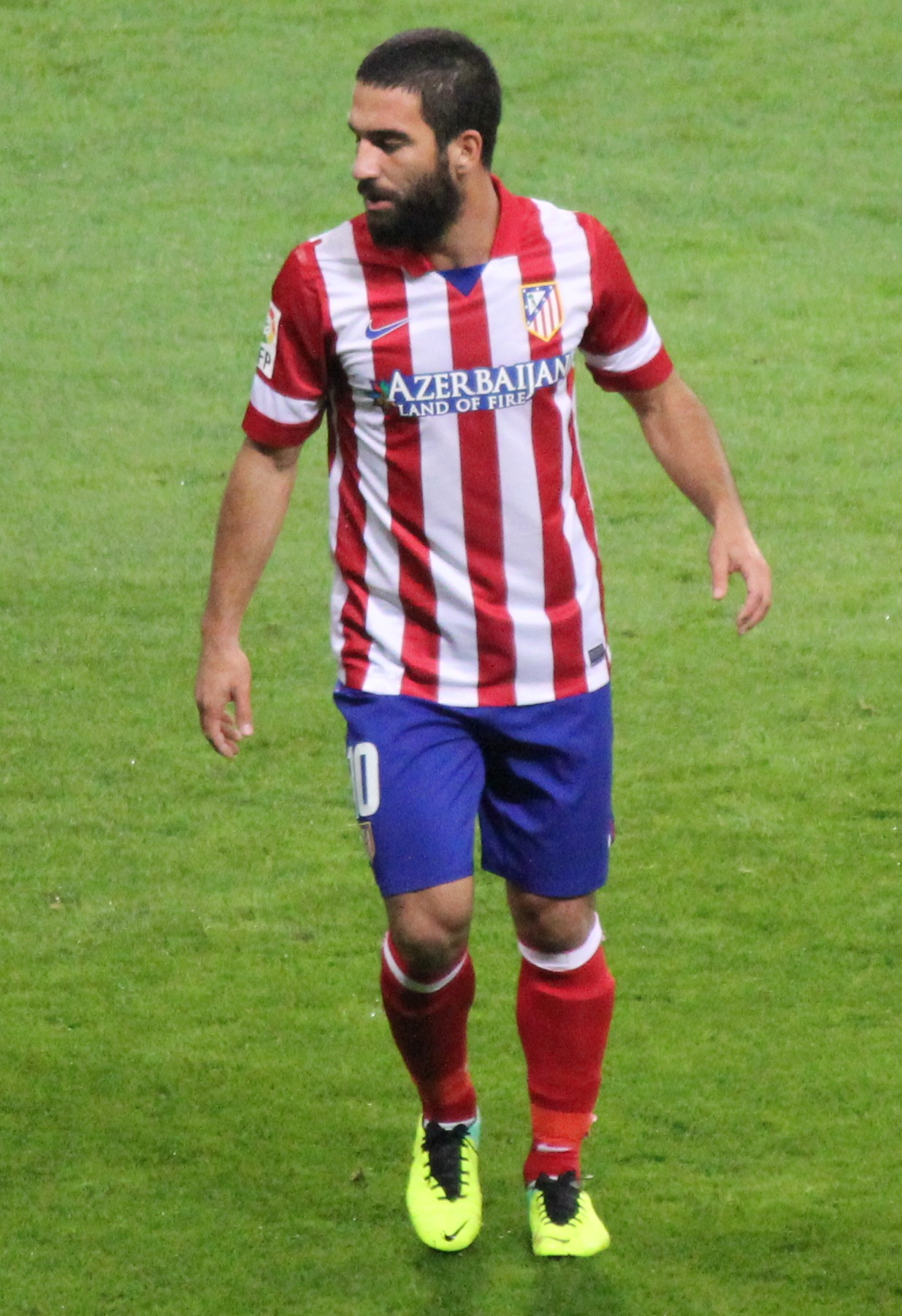 Real Madrid vs. Atlético Madrid 28 September 2013. Arda Turan for Atlético.